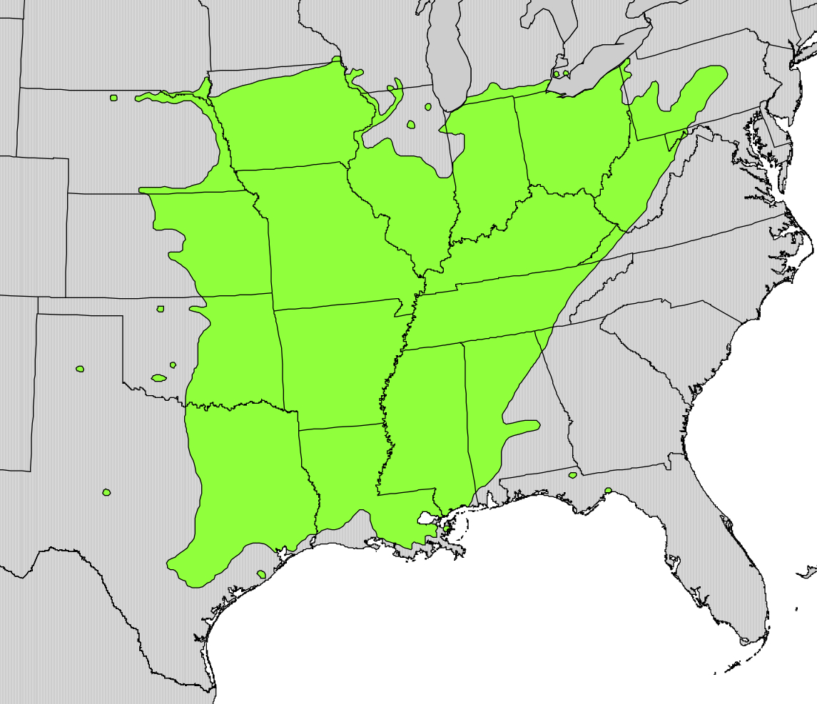 Natural range of Honey locust (Gleditsia triacanthos). Digital representation of "Atlas of United States Trees" by Elbert L. Little, Jr. 1999. U.S. Geological Survey. [1]